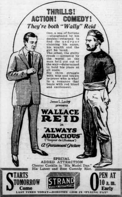 Newspaper advertisement for the American film Always Audacious (1920) with Wallace Reid (in two roles), on page 11 of the January 29, 1921 Duluth Herald.